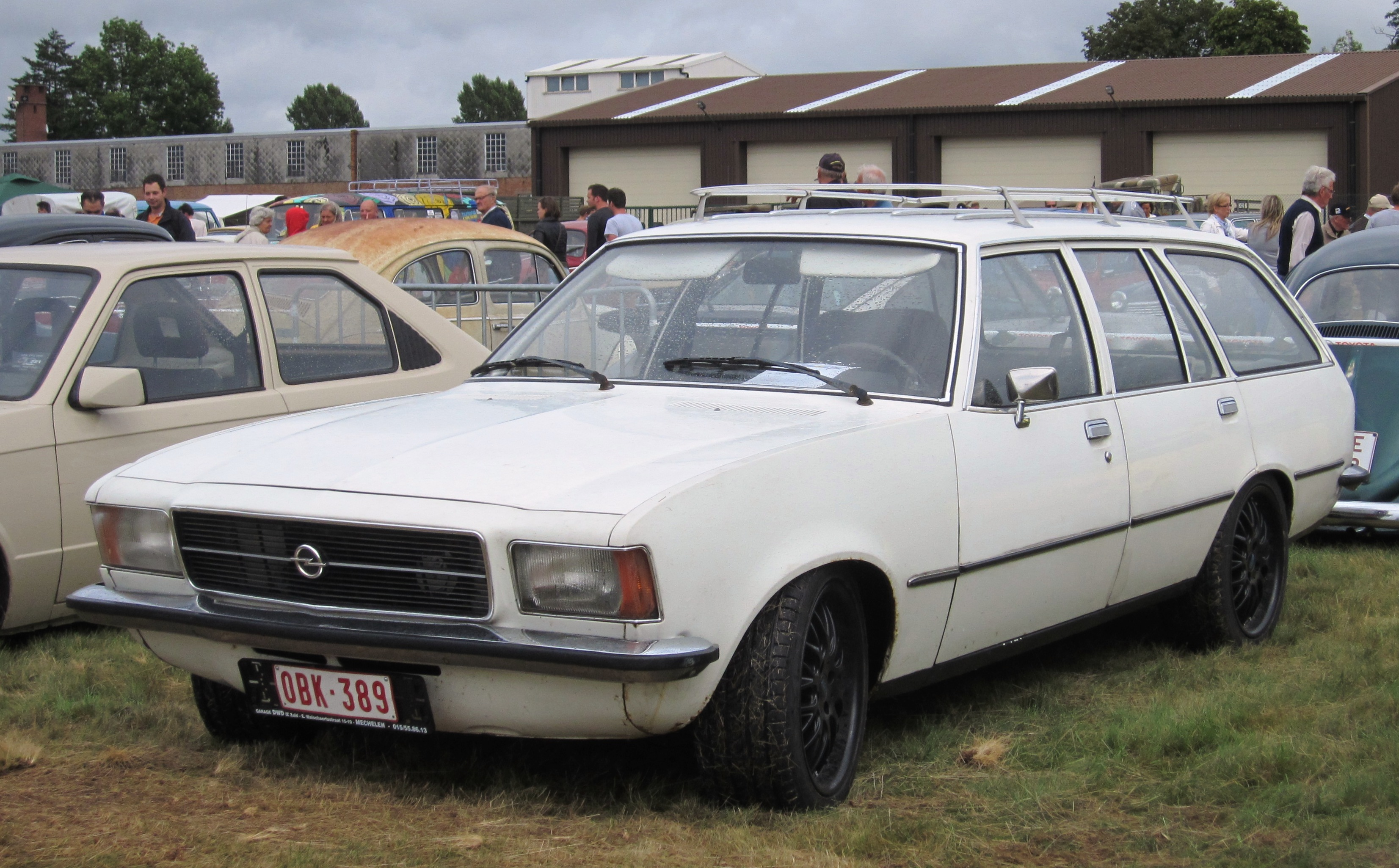 Opel Rekord D Kombi